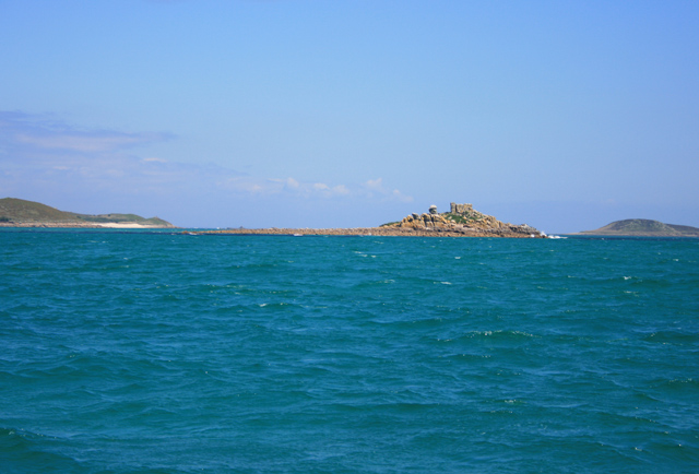 Guther's Island From the boat approaching the St Martin's Lower Town Quay